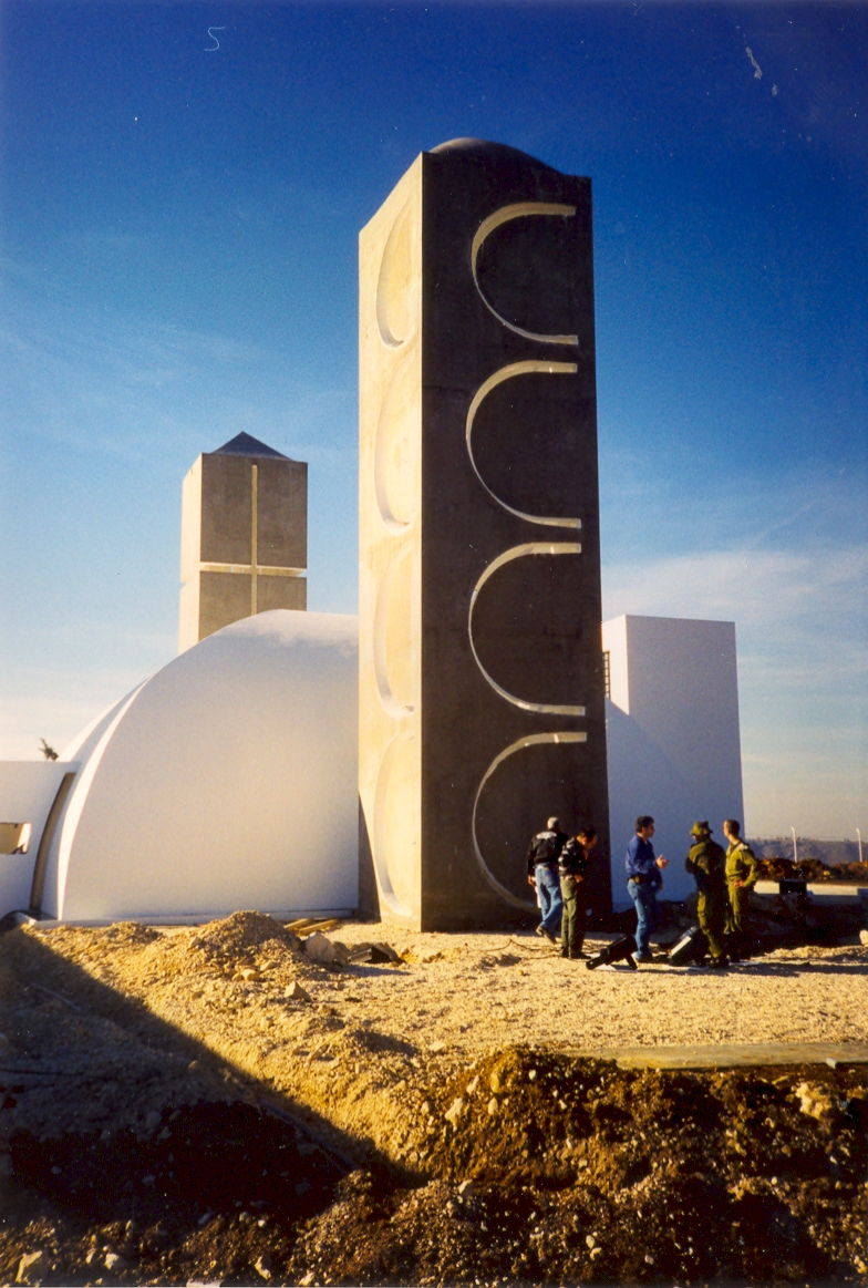 תמונה שצילם האדריכל אמנון רכטר שבנה את האנדרטה לזכר חללי צד"ל במארג' עיון